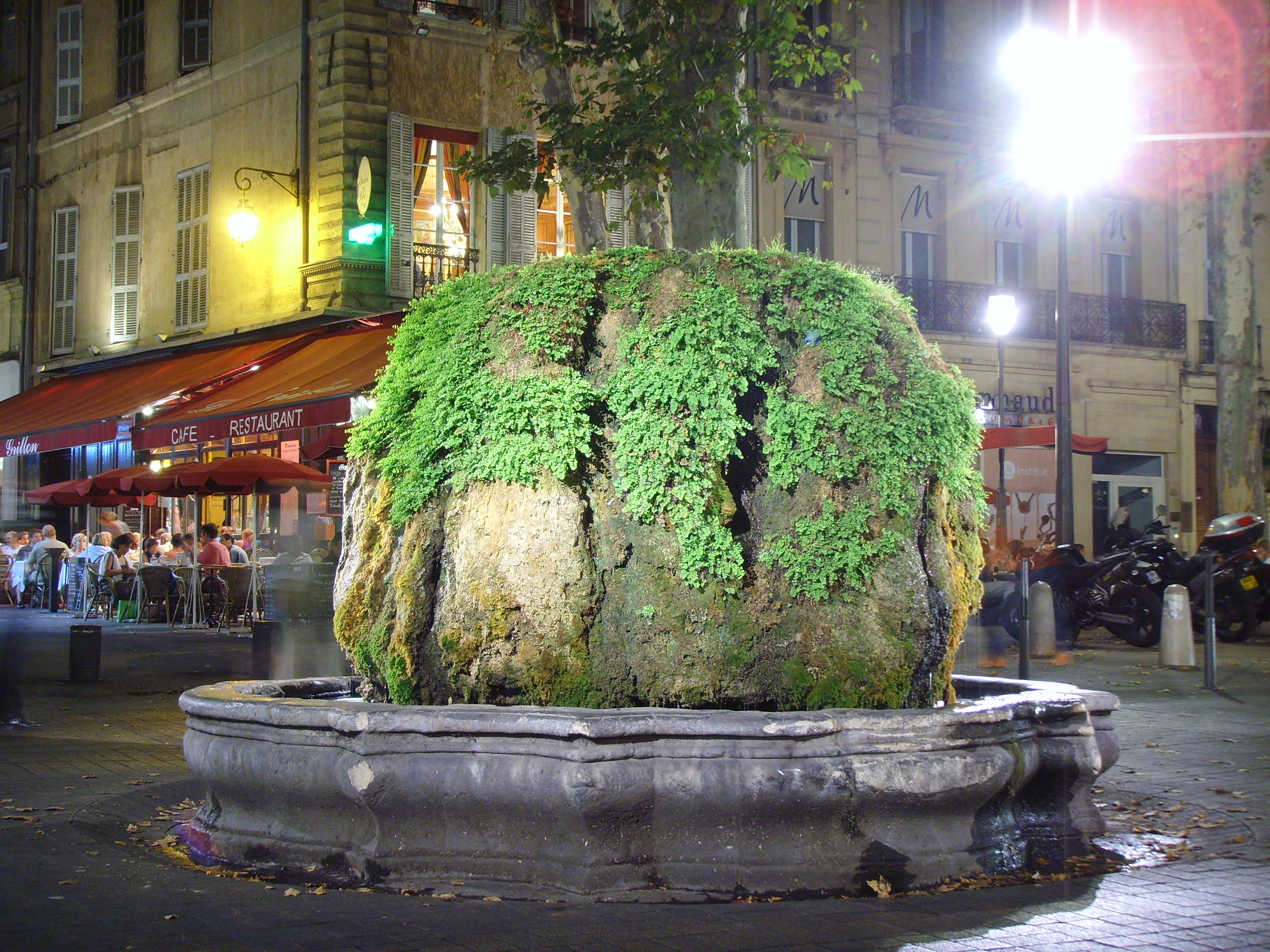 Aix-en-Provence, France: Fontaine at night